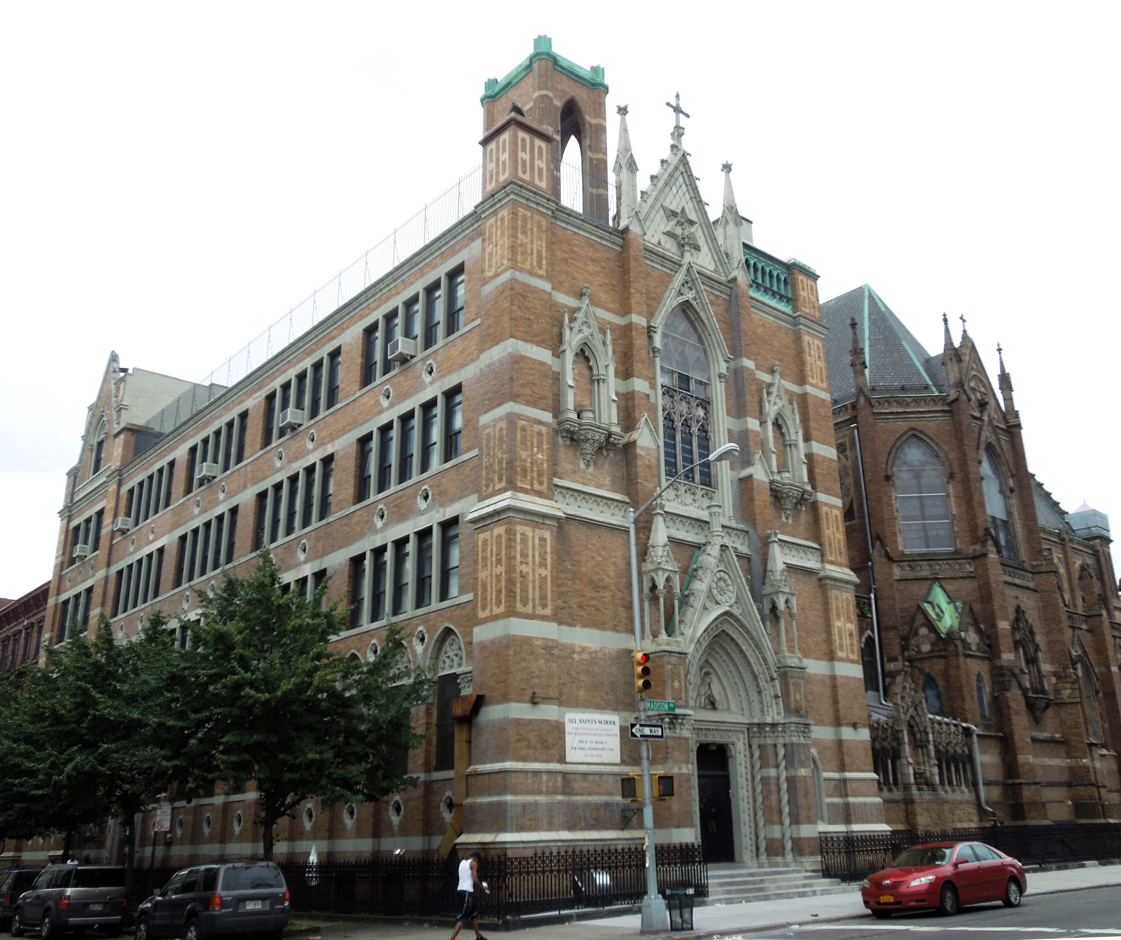 The All Saints' Roman Catholic School at Madison Avenue and East 130th Street in Harlem, New York